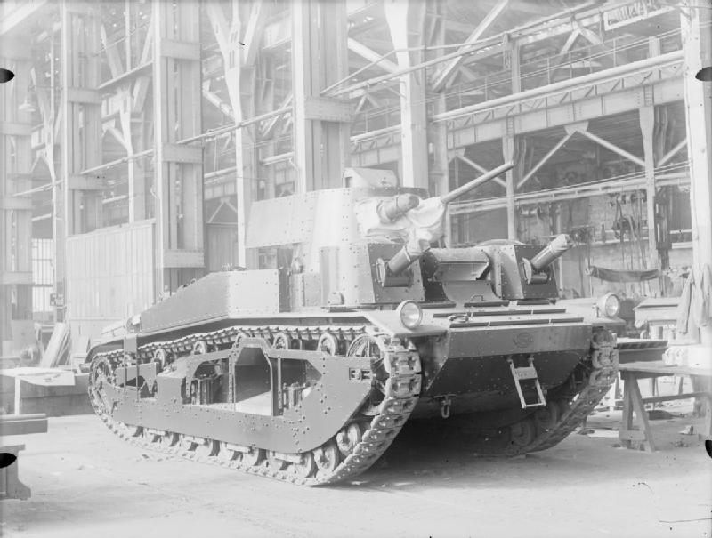 Photograph of Medium Tank Mk.III.